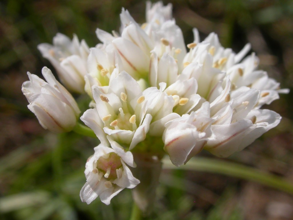 The flowering head of textile onion, Allium textile, has congested flowers.